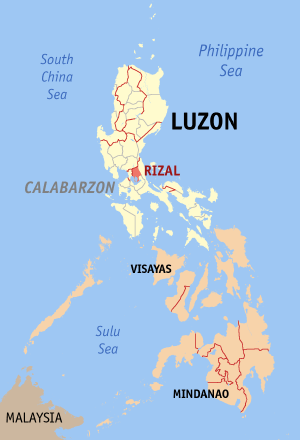 Map of Philippines showing the location of Rizal